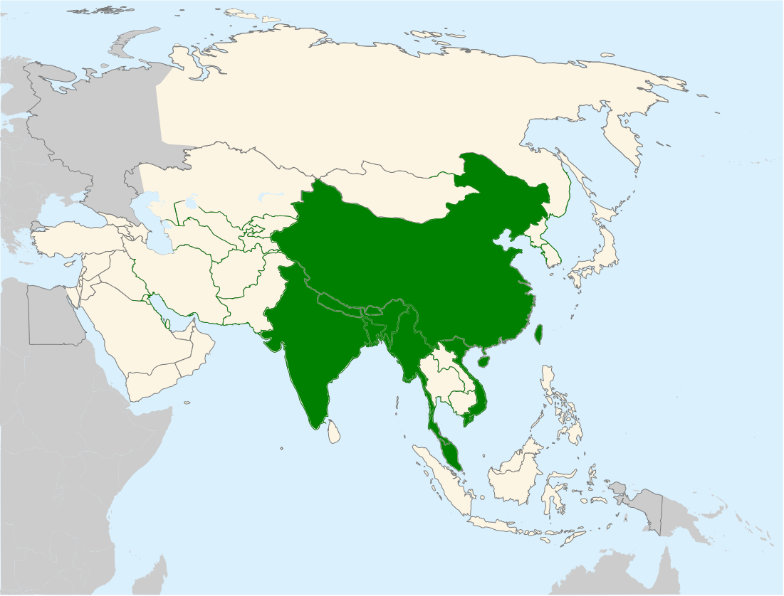 Range of the tawny fish owl (Ketupa flavipes), as shown by Avibase & al.